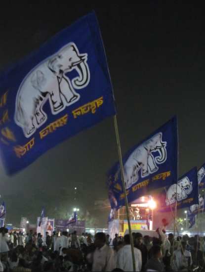 Rally of BSP